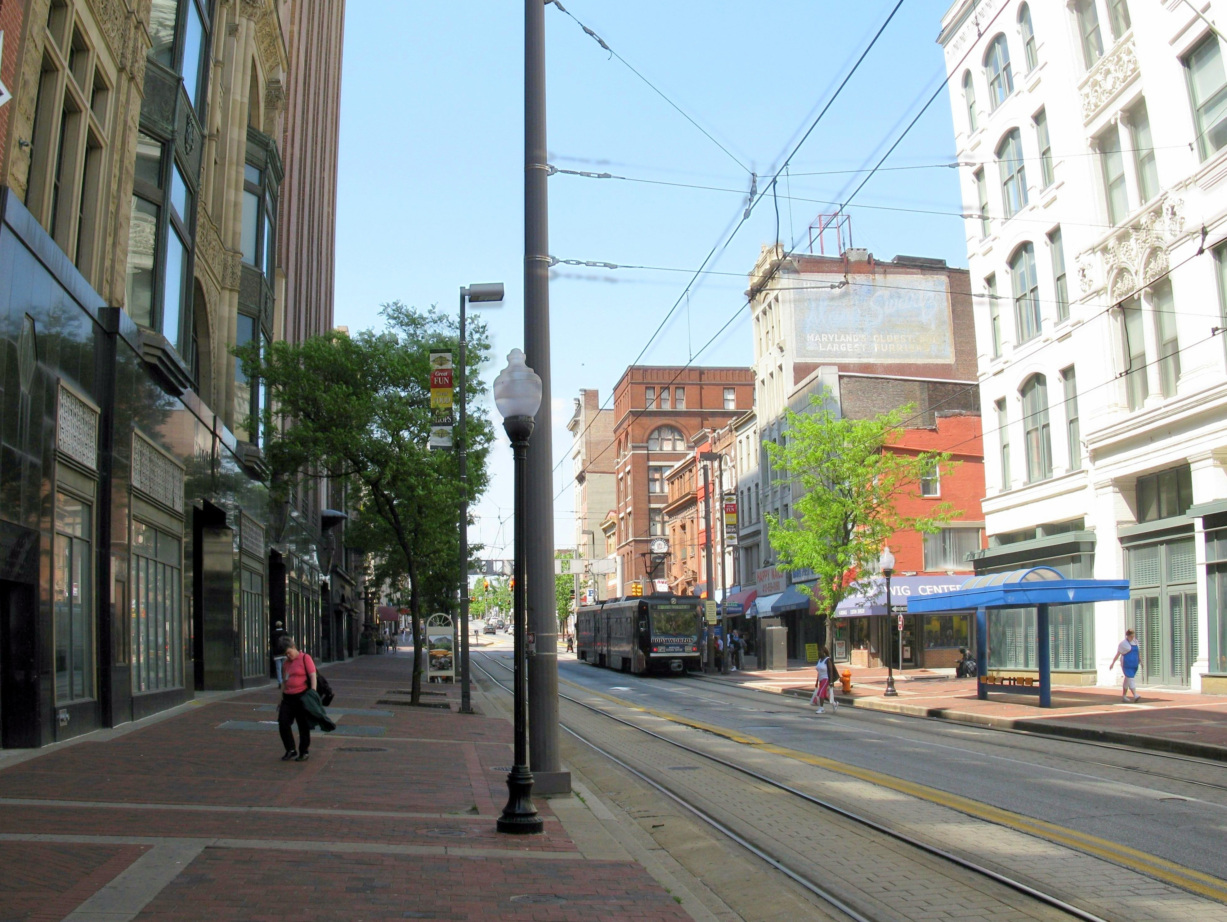 North Howard Street viewed from West Lexington Street, Baltimore, Maryland.